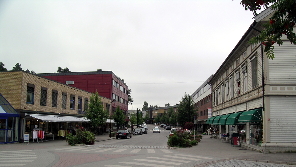 Leiret; the main street of Elverum, Norway.